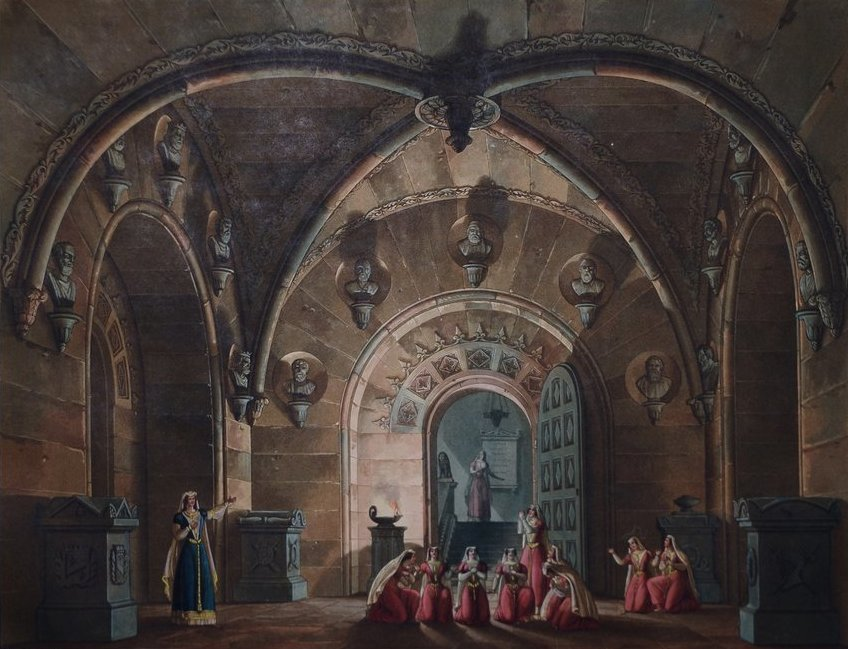 Scene 7.a (Volte Sotterranee (Underground vault)) from the opera Gli Arabi nelle Gallie (libretto by Luigi Romanelli, music by Giovanni Pacini) created 1827, 8th March at La Scala, Milan. Set design by Alessandro Sanquirico. Caption (Italian) : "Questa Scena fu esequita nel Melodramma serio Gli Arabi nelle Gallie del Sig. Luigi Romanelli, posto in musica del Sig. G. Pacini nell' I.R. Teatro della Scala l'autuno del 1827". Aquatint engravings with original hand coloring Black and white version at the Victoria and Albert Museum